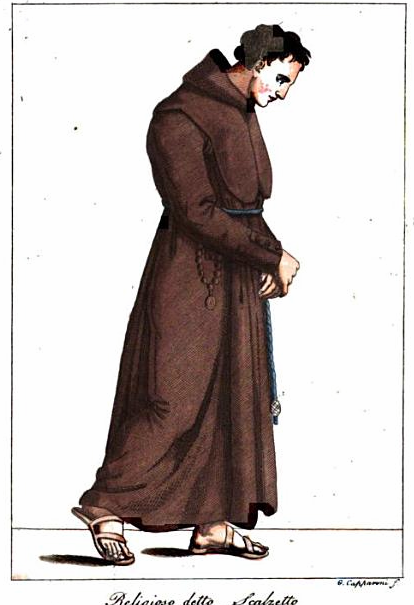 Engraving plate with a Penitent Friar, Scalzetto, from a book pub. 1827